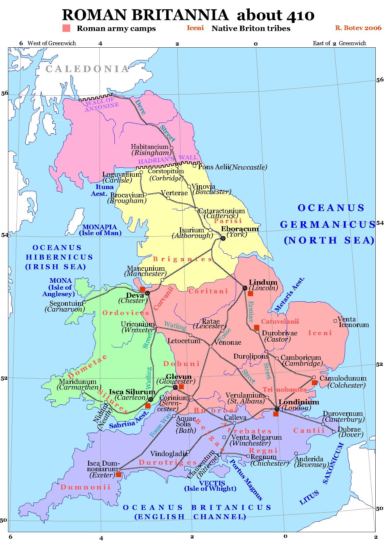 Version of File:Roman Britain 410.jpg, by Lotroo. Map of the roman Britannia in 410.